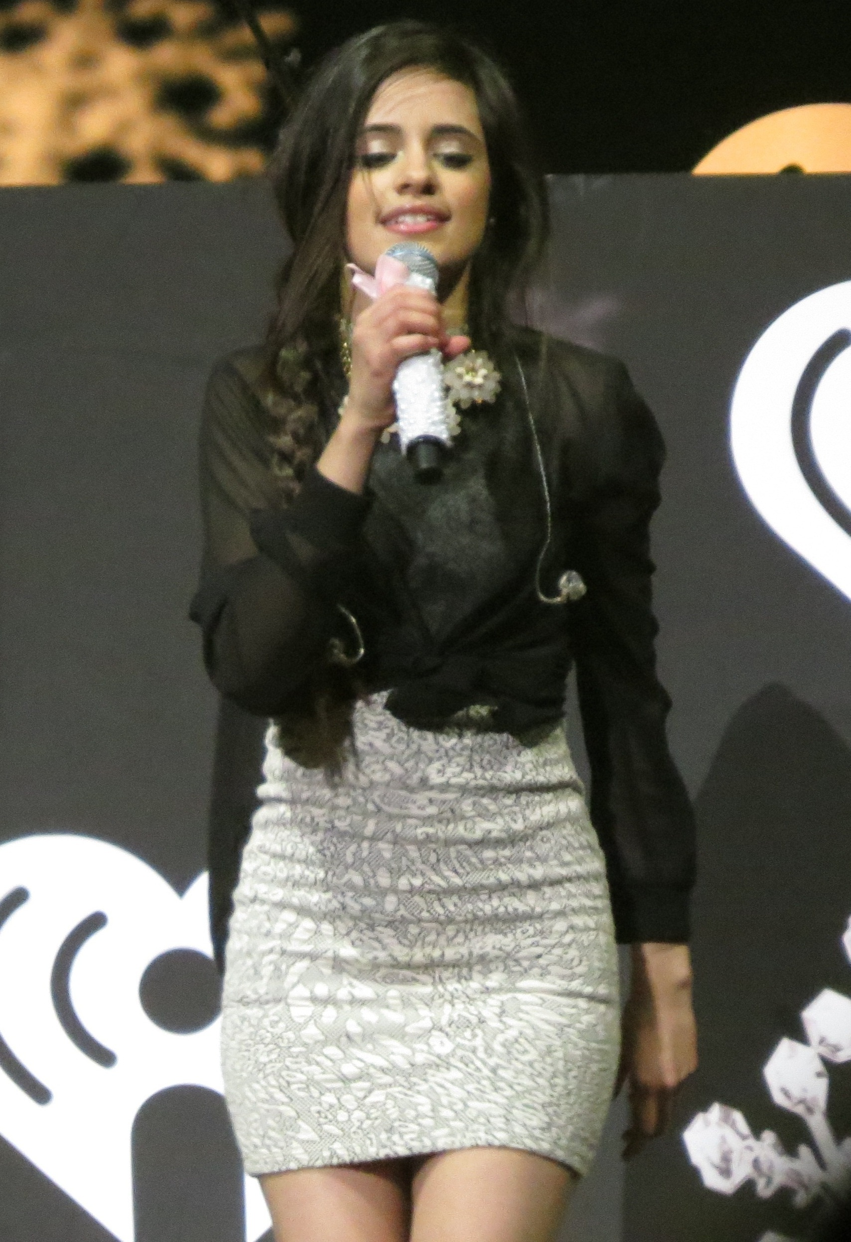 Camila Cabello performing in 2013